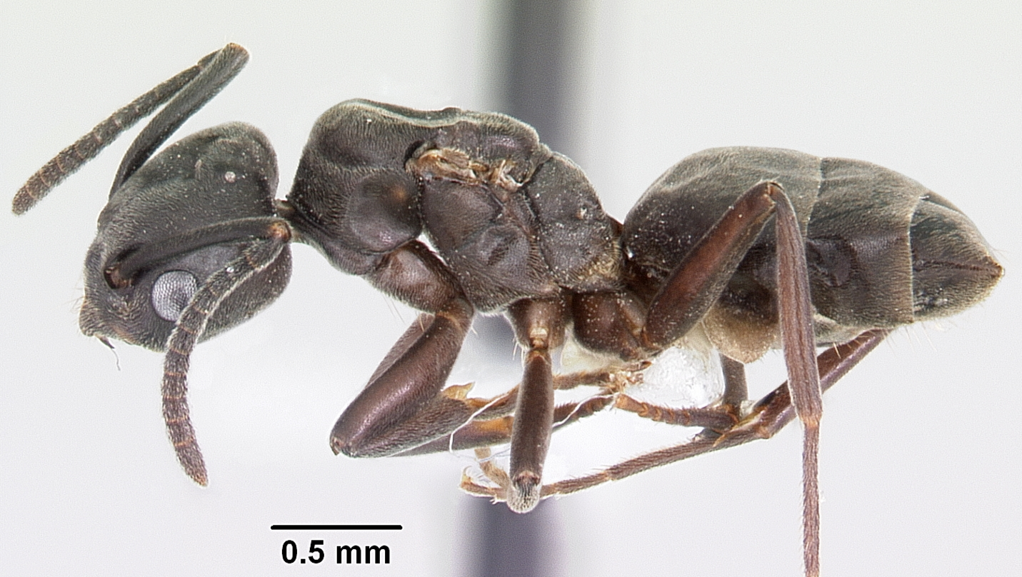 Profile view of ant Tapinoma sessile specimen casent0104849.